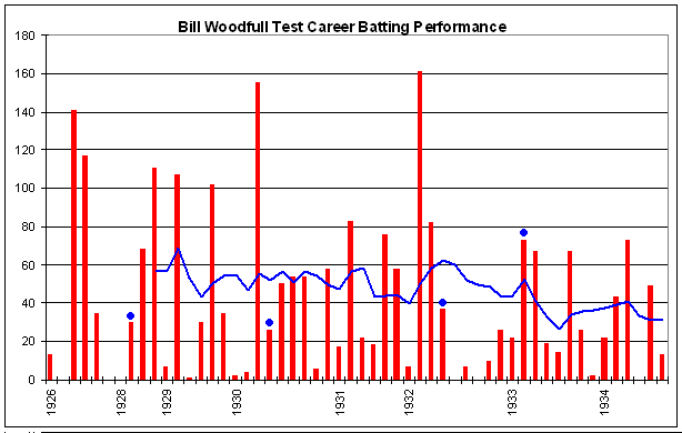 Test batting chart of Bill Woodfull. Red columns are the runs in the innings. Blue dots indicate not outs. Blue line is average in the last ten innings. Thanks to Raven4x4x for providing the template.